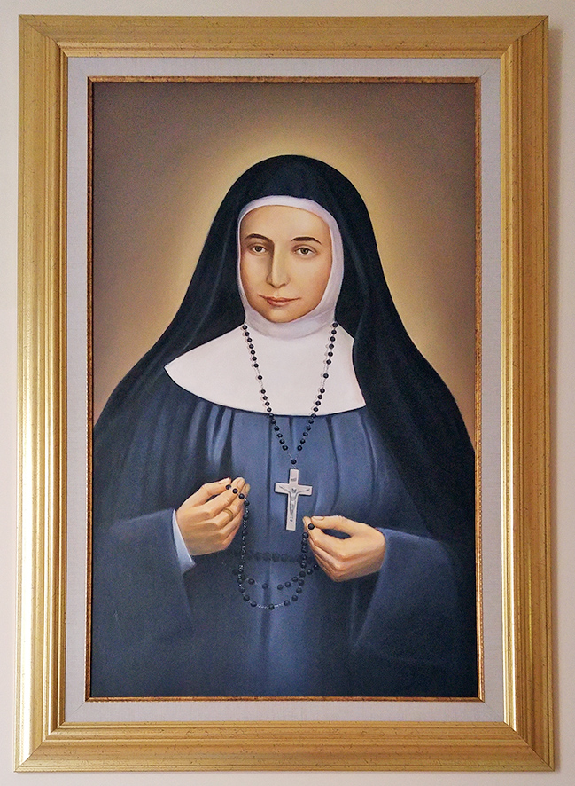 Marie Alphonsine Danil Ghattas, founder of Rosary Sisters order in the Middle East